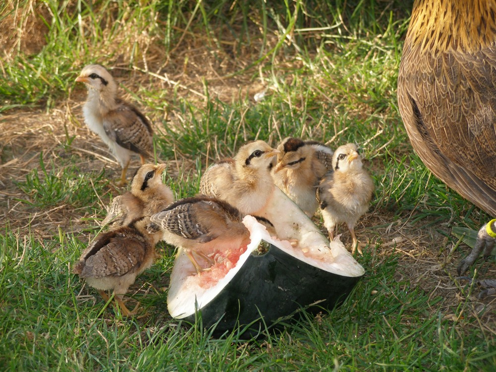 phoenix